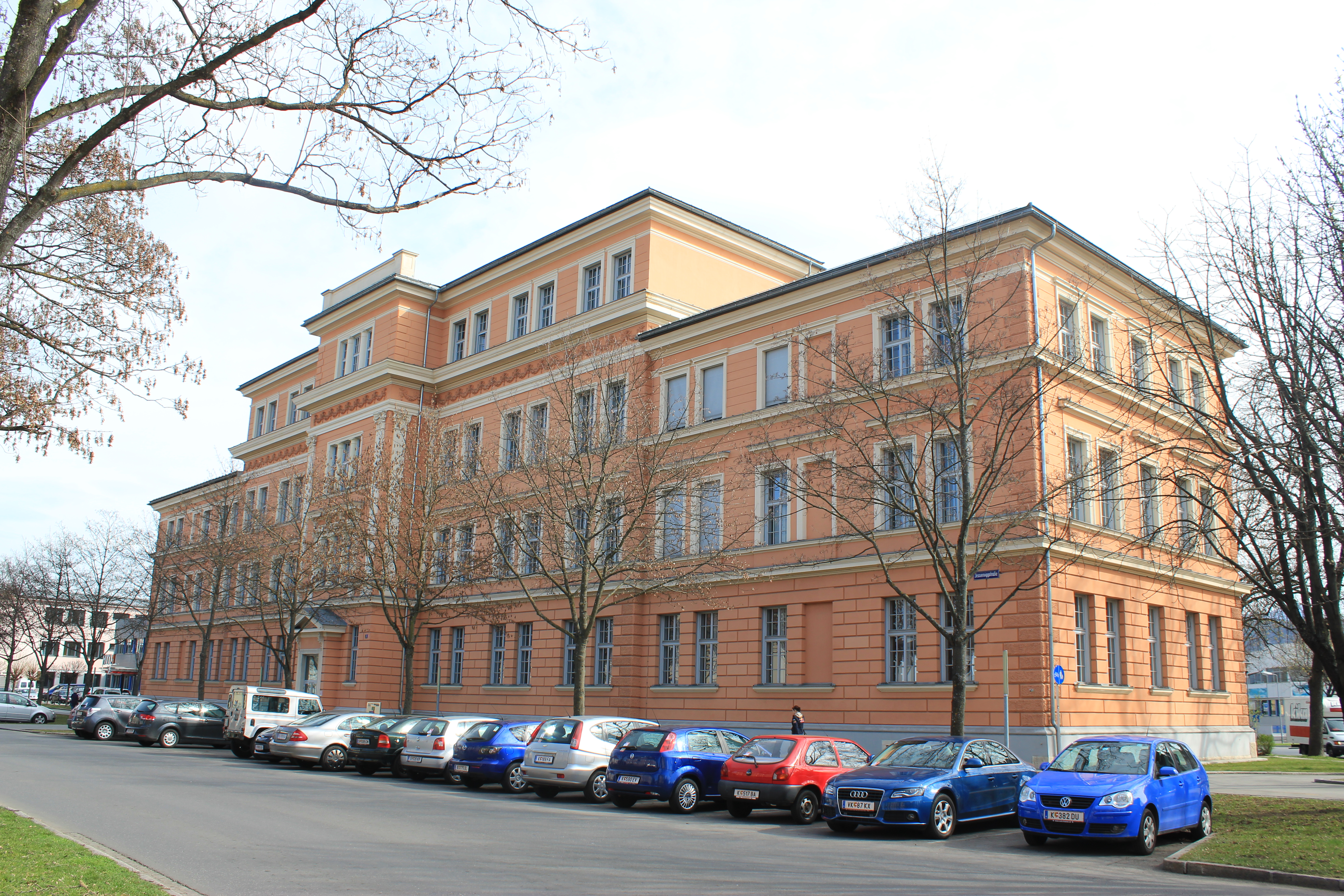 HTL in Klagenfurt